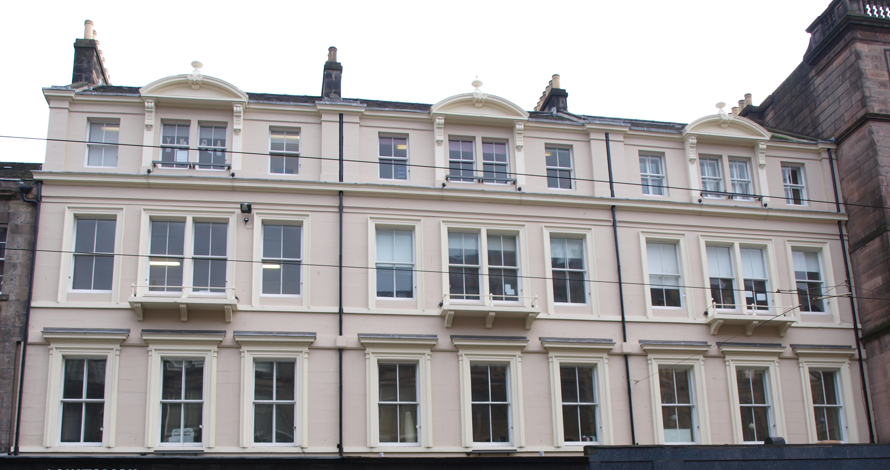 First and second floor façade of 15 - 19 Shandwick Place. Believed to be location of Base of Edinburgh Association for the University Education of Women.